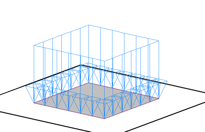 Diagram of surface load.